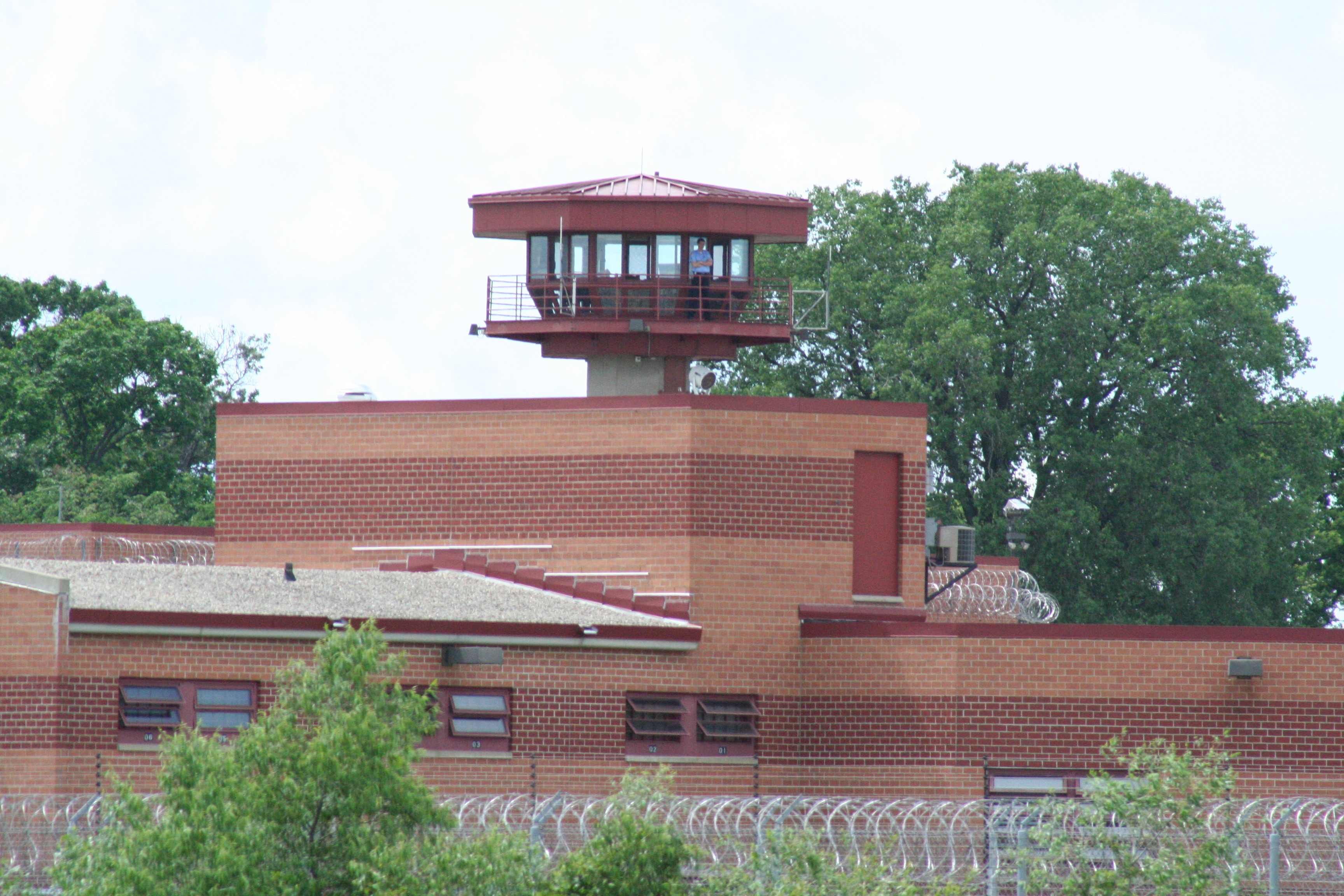 The Columbia Correctional Institution near Portage, Wisconsin with an occupied guard tower as photographed from Interstate 39.